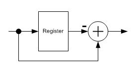 Differential coding decoder with sign